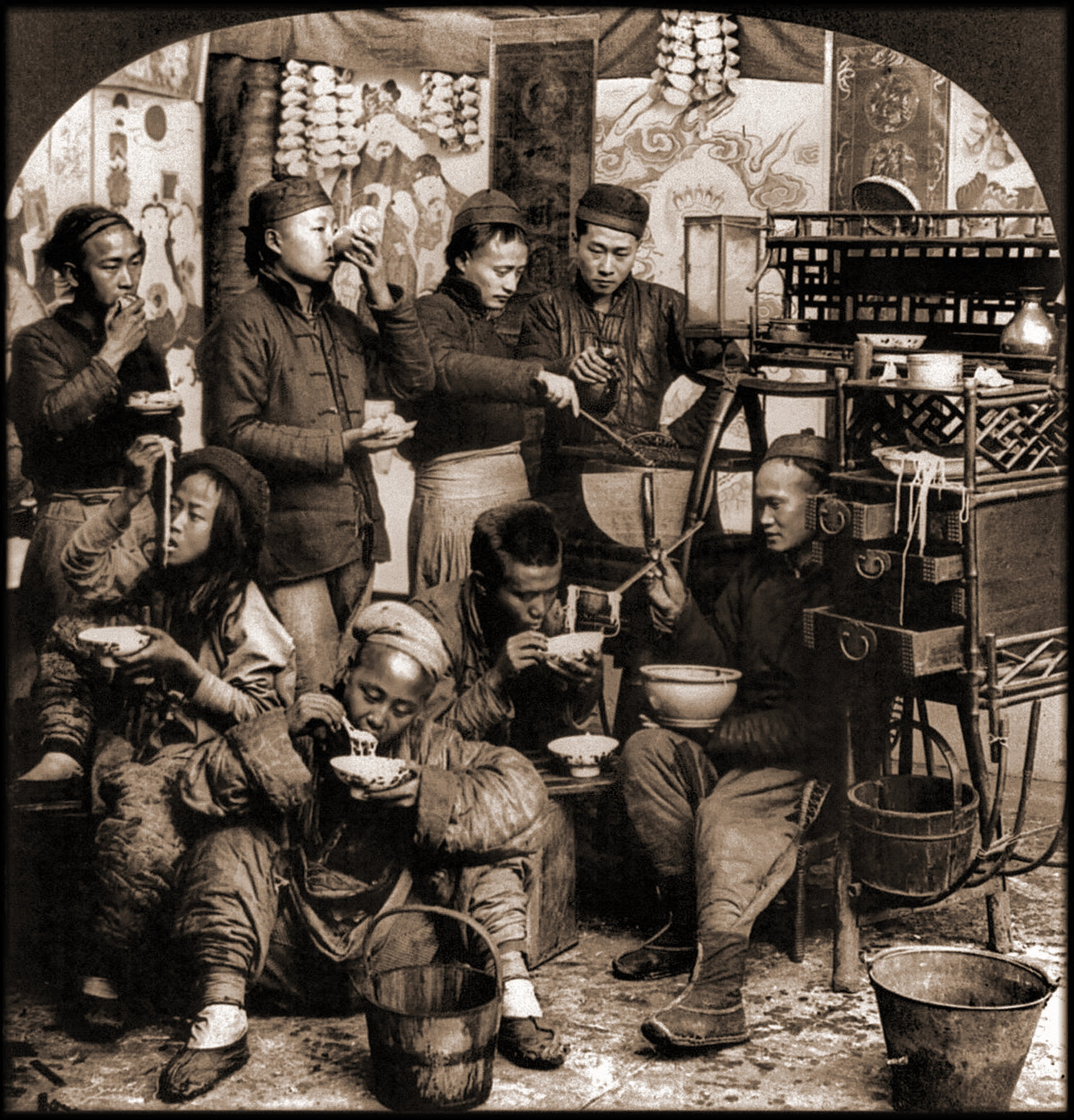 Entitled: Natives At Breakfast, Movable Chow Shop, Canton, China [c1919] Keystone View Co. [RESTORED] I did the usual spotting, contrast, tonal corrections and added a sepia. However there are really serious limits that one can do when the original shot was set up with a single light source and no apparent or proper fill. The shadows in this case, seem to be deeper than the US national debt. I just love these funny propped shots that purport to show the "real" Chinese slice of life. The funniest part is that there were probably some who believed these pictures wholeheartedly. A mixture of truth, probabilities, outright falsehoods, and a often a lot of the photographers' wild imagination, they're not only of historical significance, but begin to take on artistic value purely because of their sheer Kitsch. That said, historically, street vendors did in fact sell hot food from either portable or rolling kitchens like this in the larger Chinese cities of the 1900's, so the image probably leans more to the truthful side than not. However I do question the dating of this image, which seems to be thematically similar to many that were produced by the BW Kilburn Co in 1901 (Kilburn unfortunately never issued sets of images). As Kilburn eventually closed its doors in 1909, its vast collection of 17,000 views and over 100,000 plate glass negatives was sold to Keystone View. My own speculation is that Keystone then picked the best of each collection that they acquired and reissued them with new titles and dates; hence the production date of this image was relabeled as 1919.